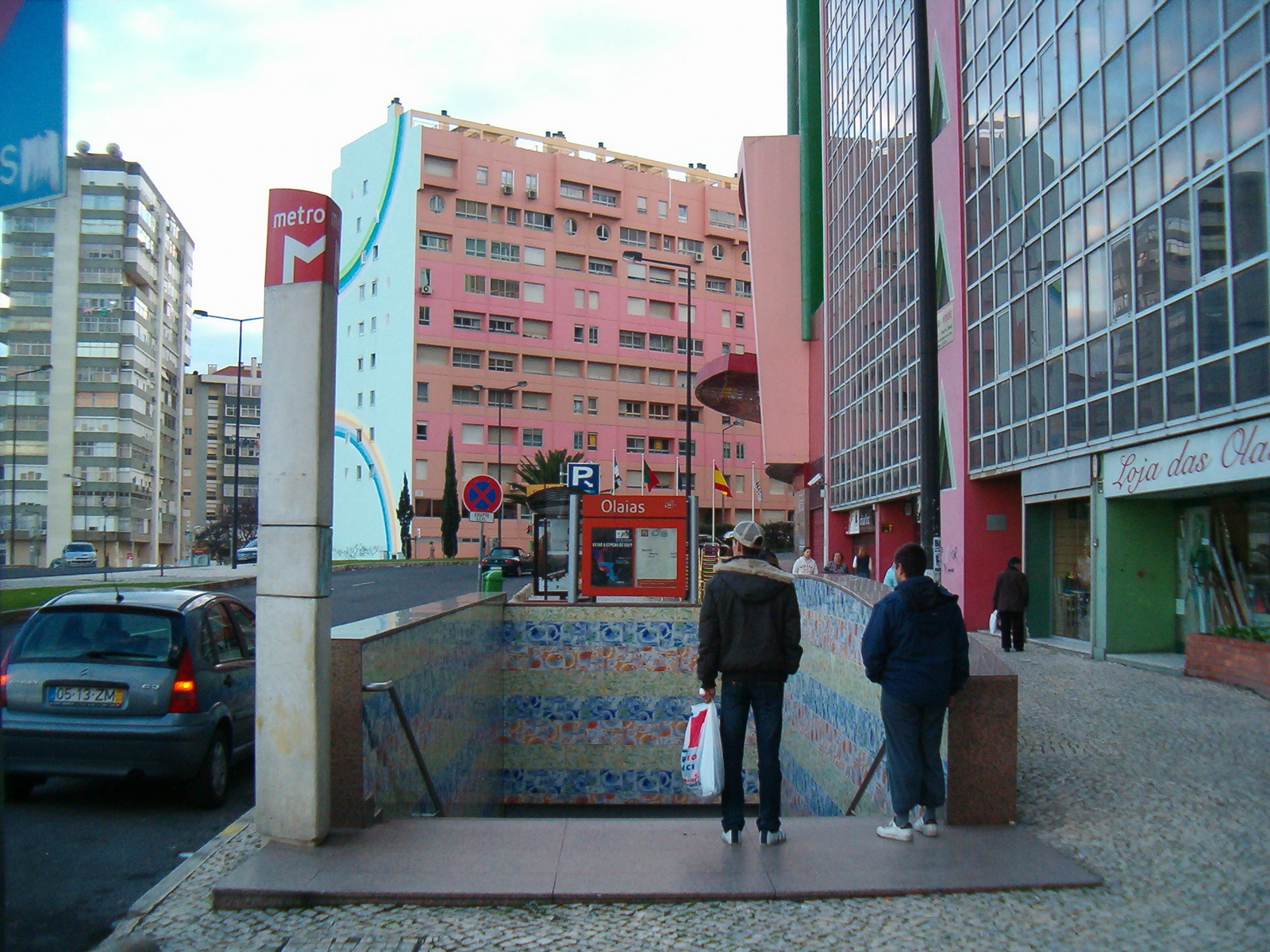 Metro station Olaias